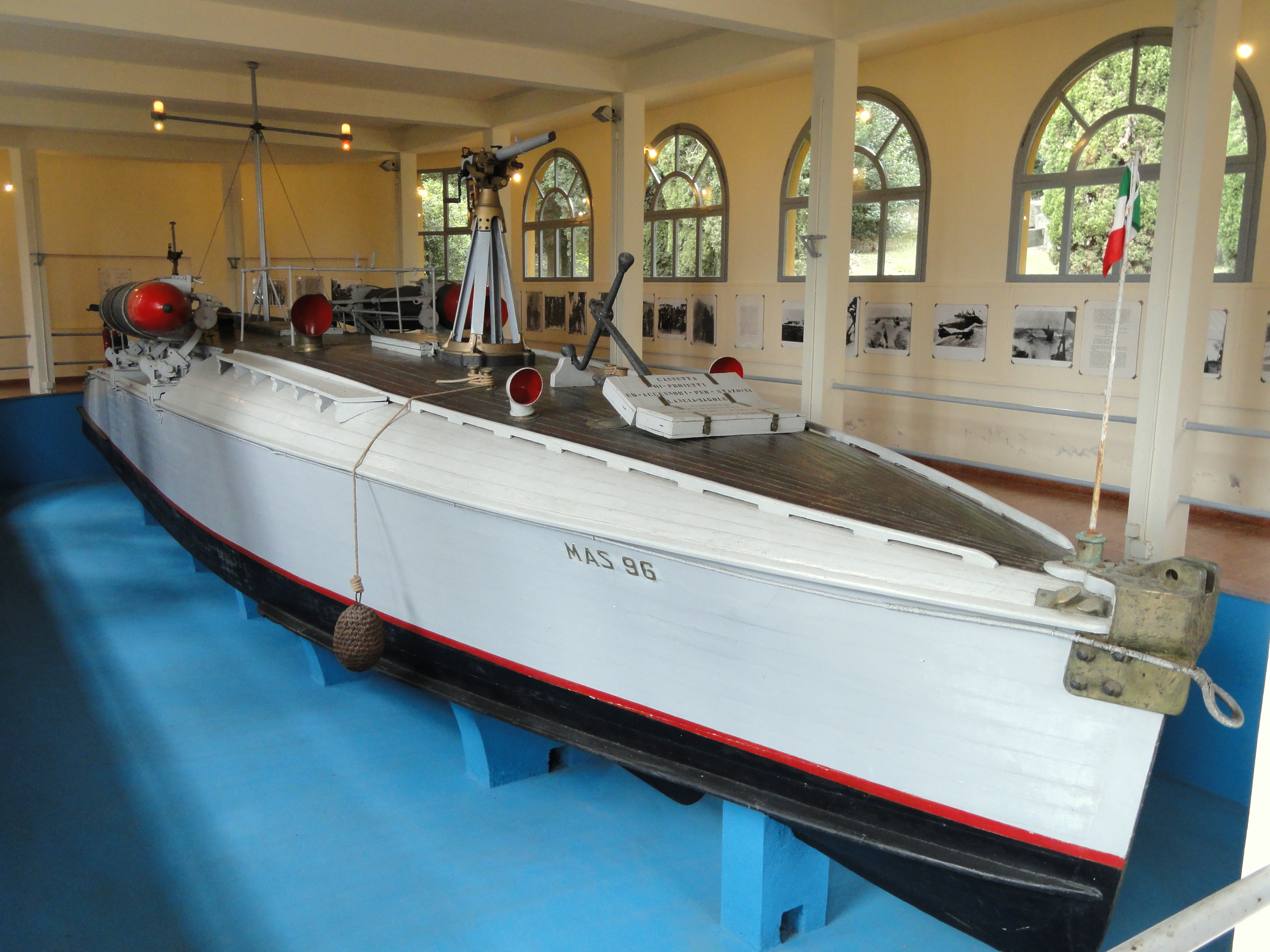 MAS 96 (World War I torpedo boat, Motoscafo Anti Sommergibile), at the Vittoriale degli italiani, in Gardone Riviera, on Lake Garda, Brescia, Italy.